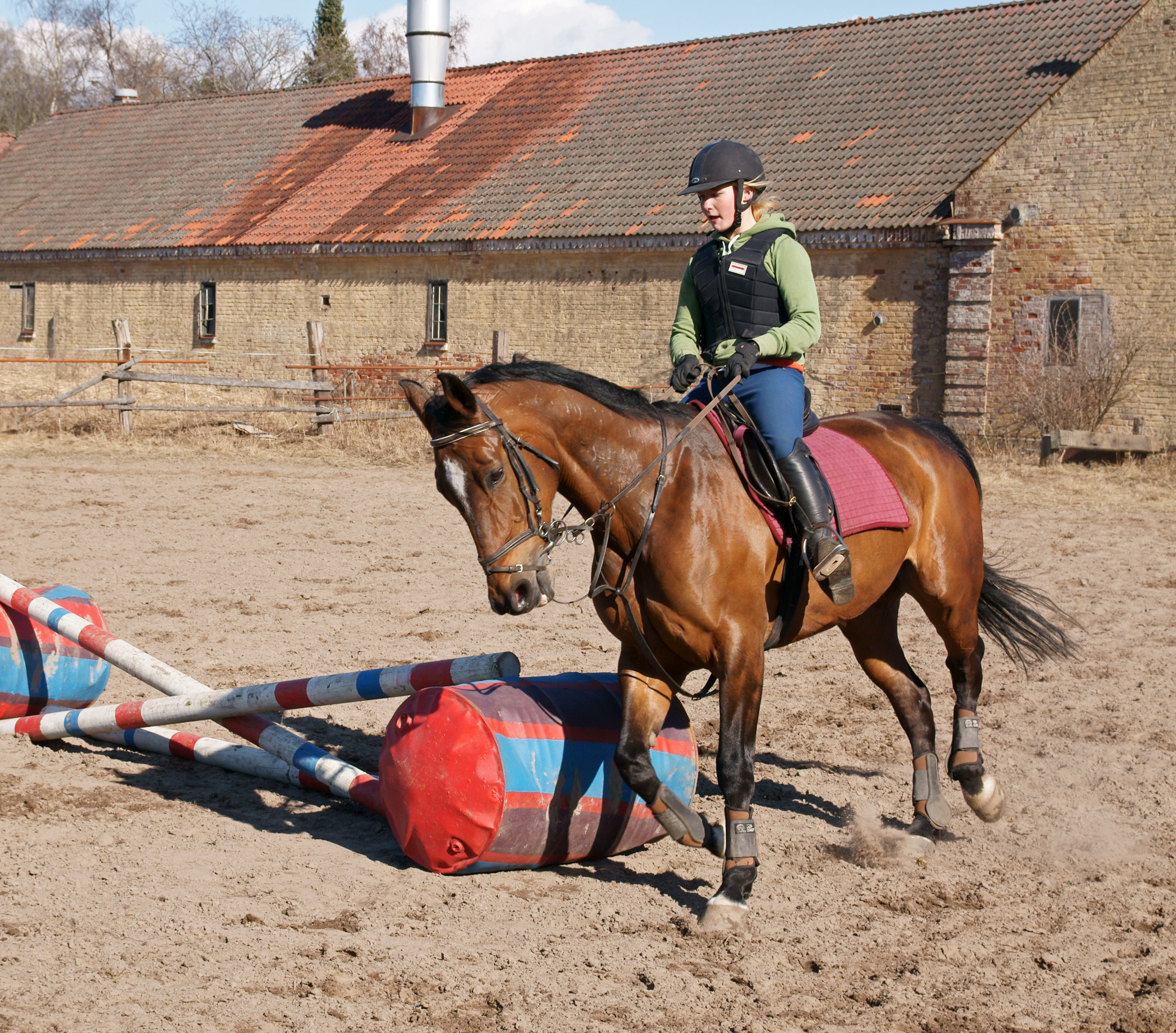 Warmblood mare.